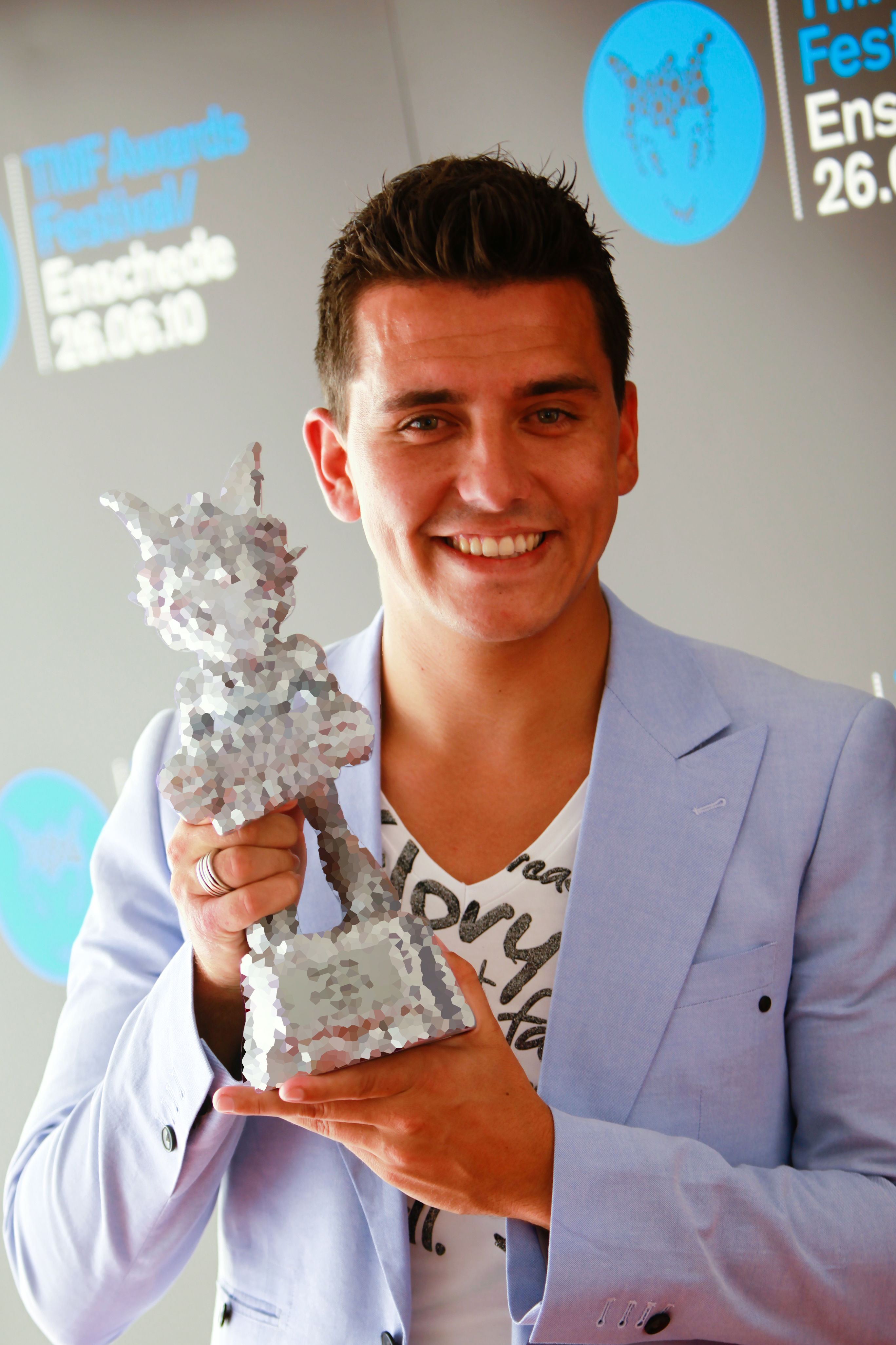 Jan Smit with a TMF Award